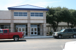 Photo of North Mesquite's new entrance.